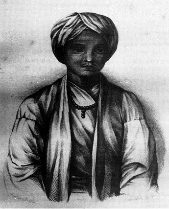 Kyai Modjo, one of Diponegoro war leader.